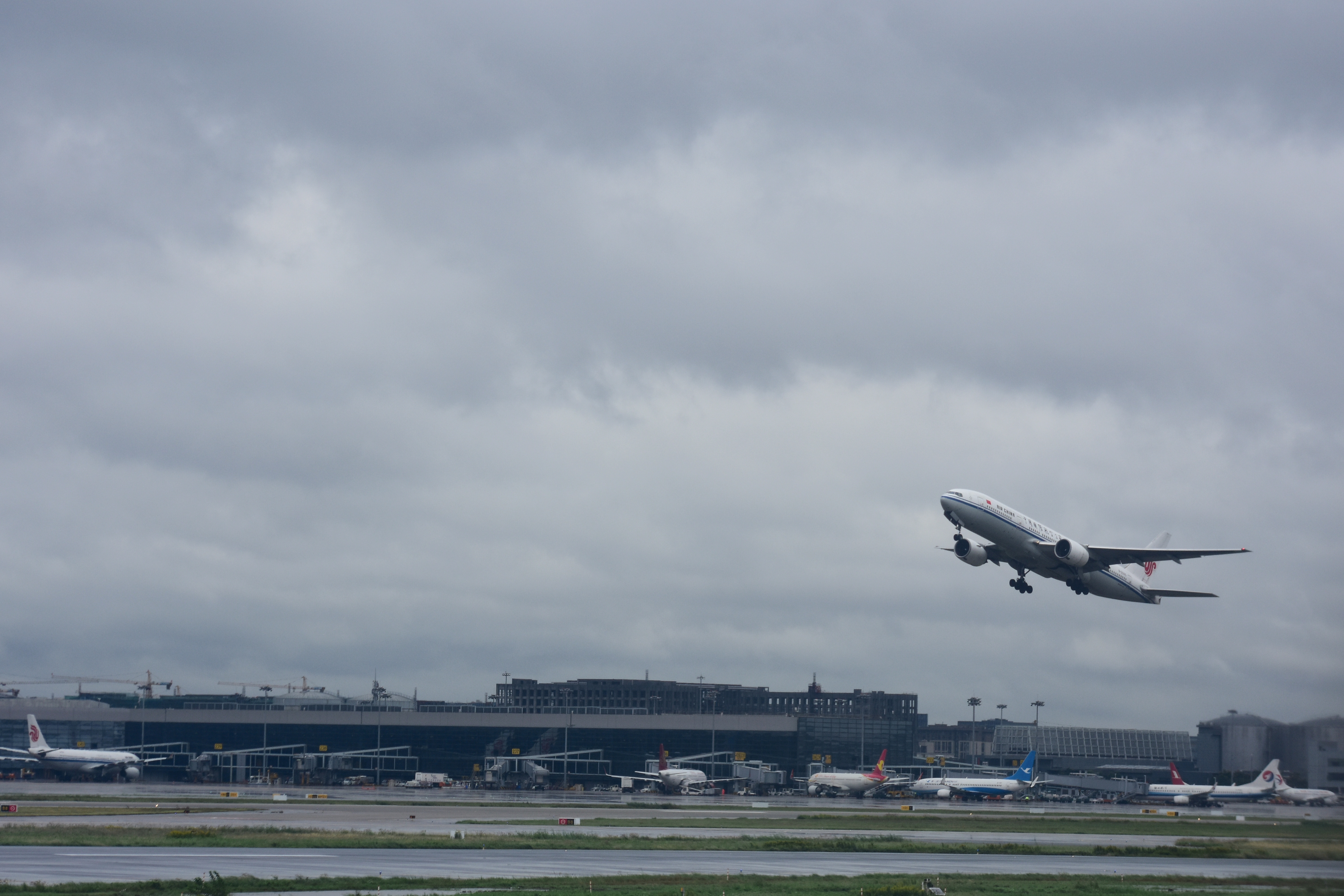 Air China Boeing 777-39L(ER) departs Shanghai-Hongqiao Airport (ICAO: SHA) on a domestic flight